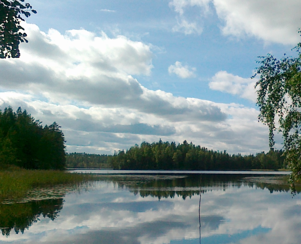 Lake Syväjärvi in Myrskylä